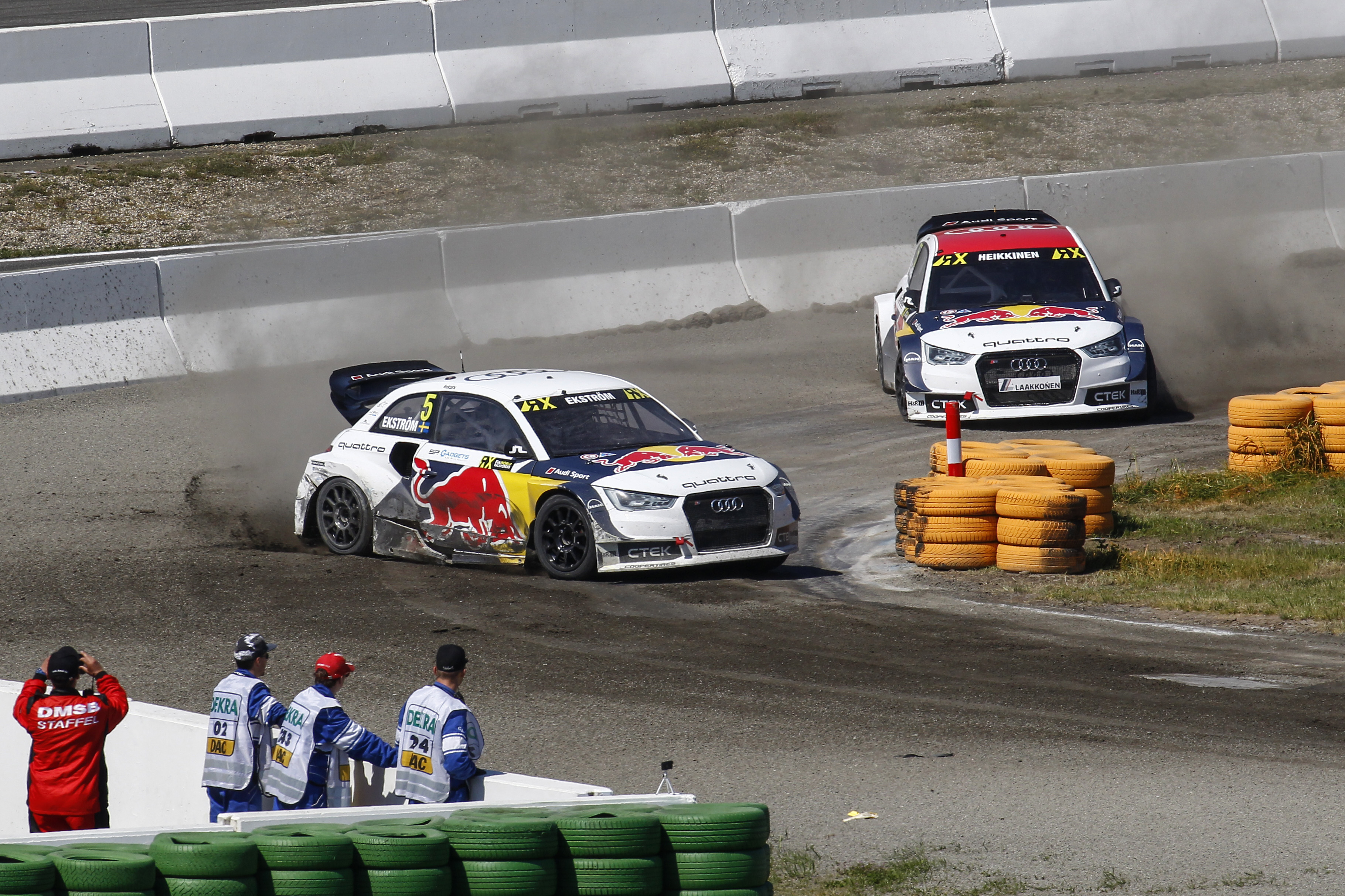 2016 FIA World Rallycross Championship // Round 02 // Hockenheim // 6-8 May, 2016 // Worldwide Copyright: EKS/McKlein